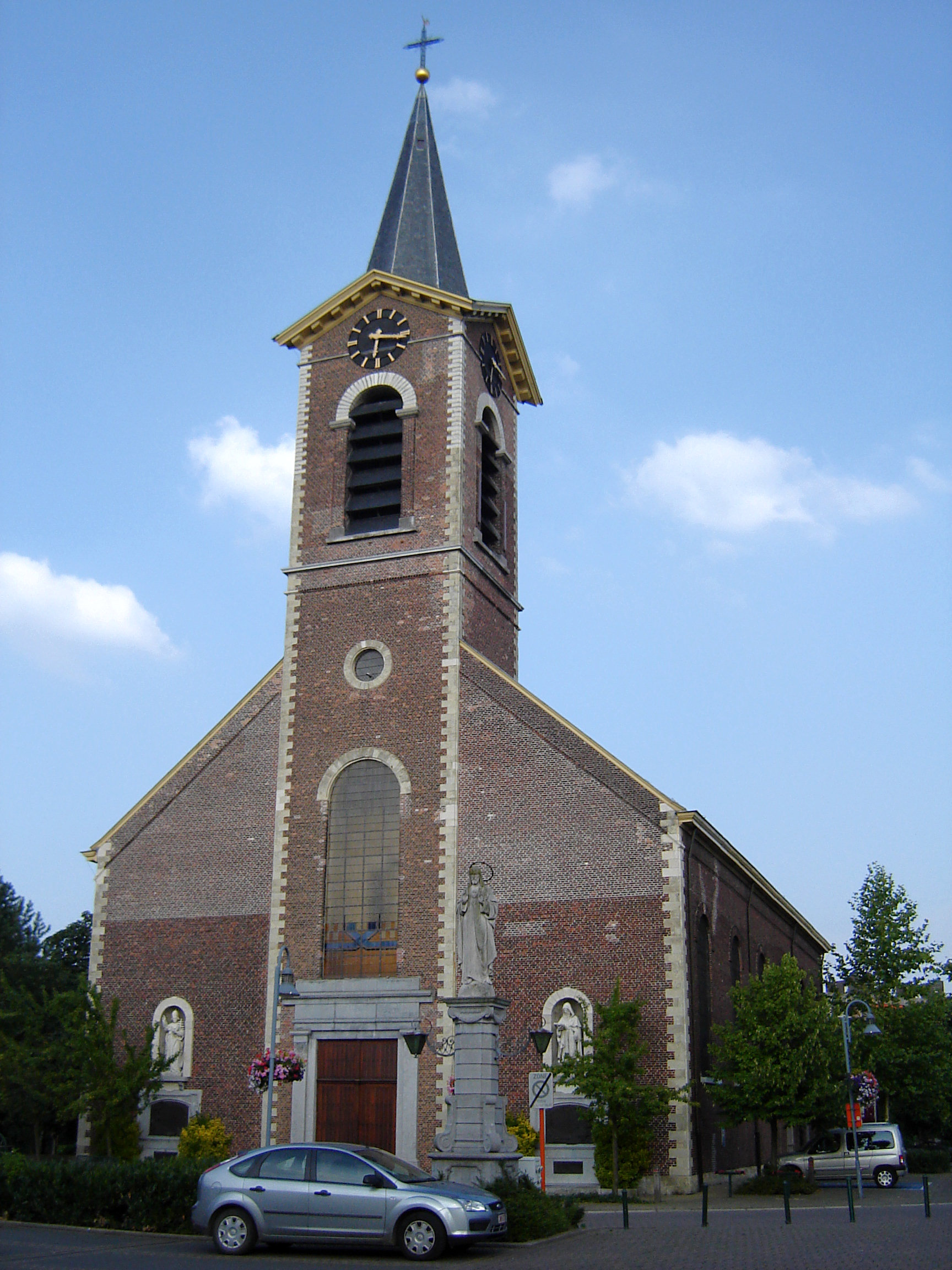 Church of Saint-Martin in Melle. Melle, East Flanders, Belgium